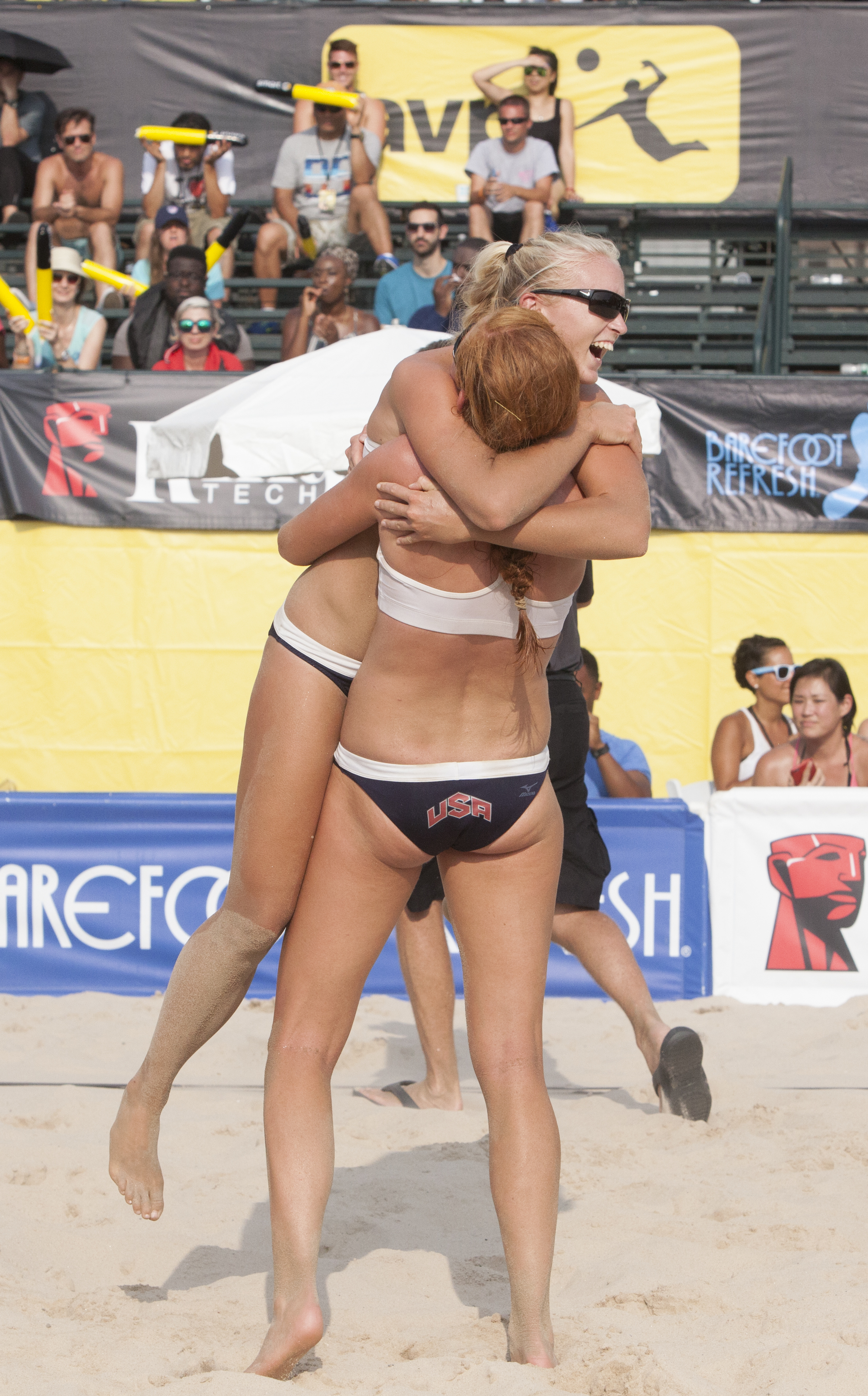 Sara Hughes and Kelly Claes celebrate after defeating April Ross and Jennifer Fopma to reach the AVP New York Open semi-finals on July 18, 2015.